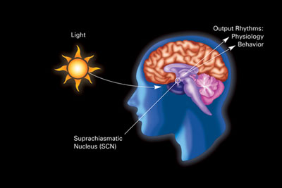 Diagram illustrating the influence of dark-light rythms on circadian rythms and related physiology and behavior.